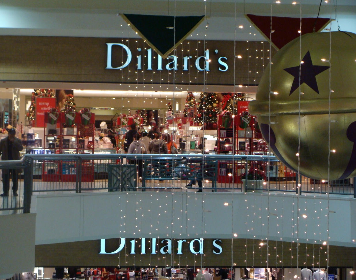 The Dillard's entrance at Ingram Park Mall, San Antonio, Texas